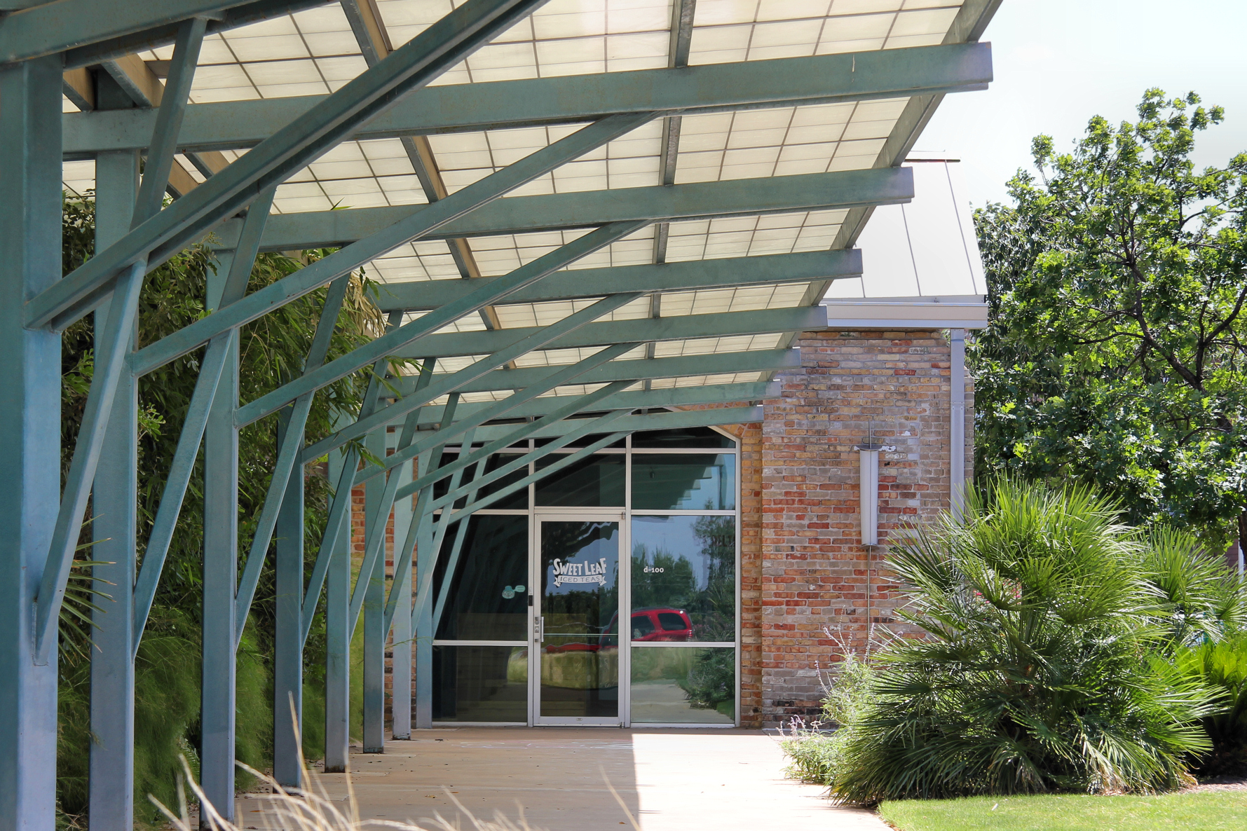 Sweet Leaf Tea Company corporate headquarters in Penn Field Business Park in Austin, Texas, United States.